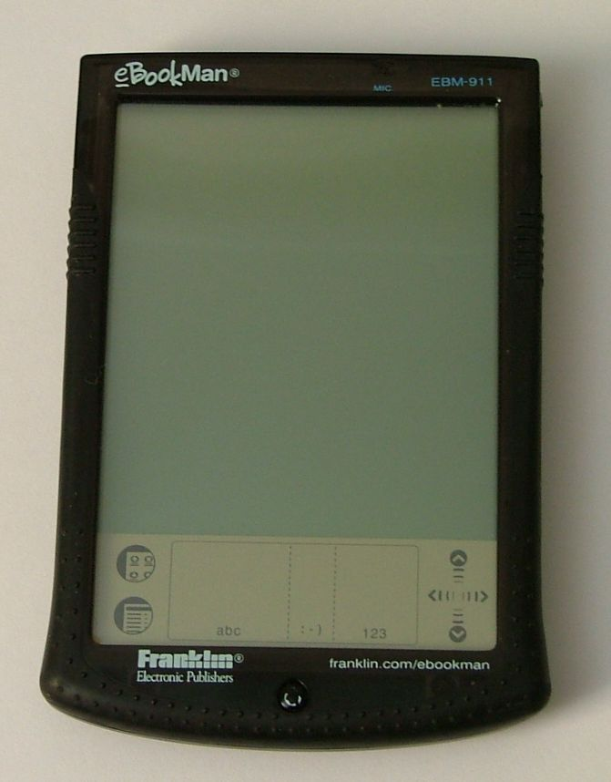 Photo of a Franklin ebookman EBM-911 E-book reader and PDA